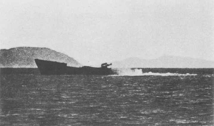 Tosa sinking stern-first and to starboard.